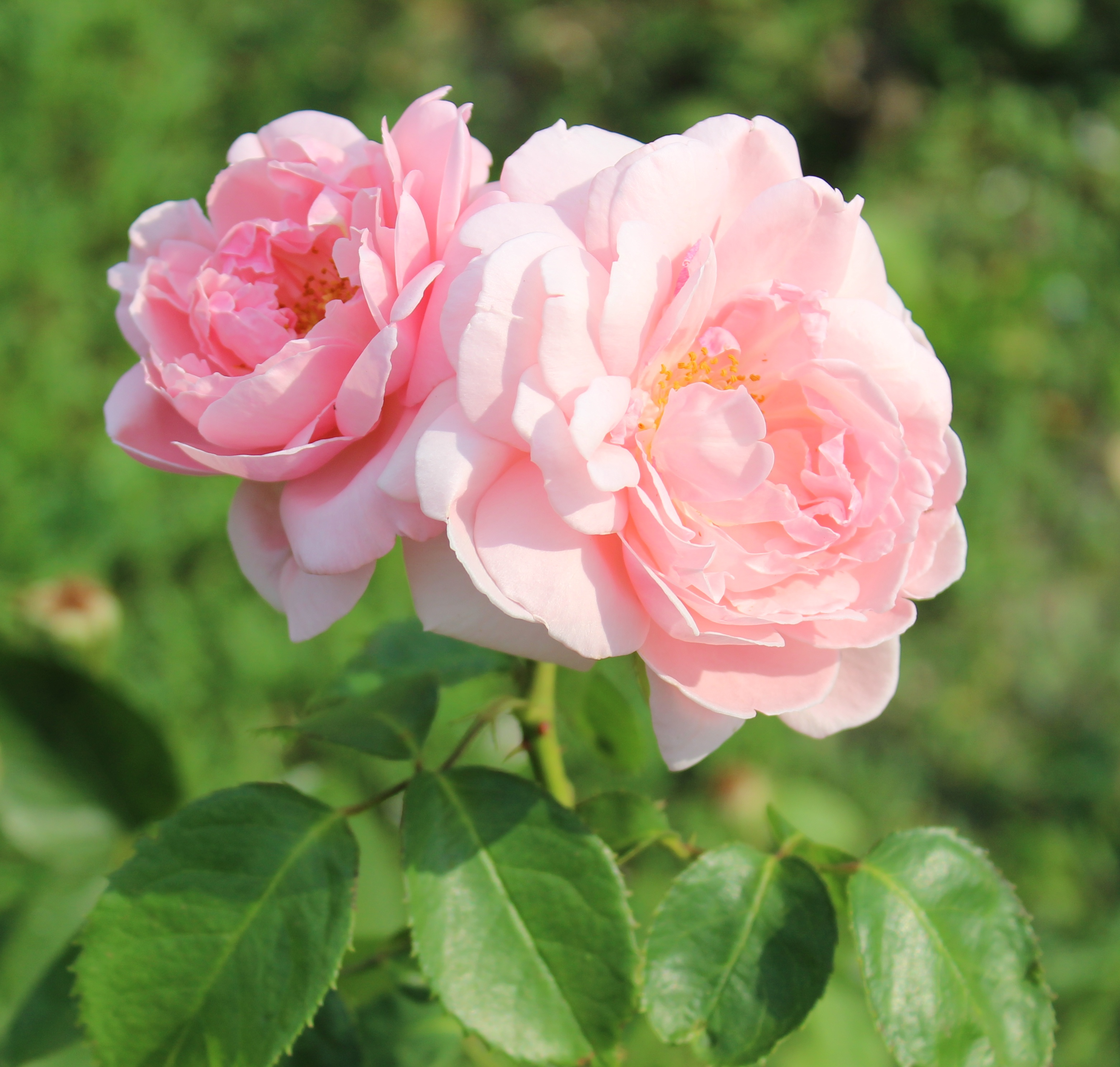 Rosa 'Kathryn Morley' in the Rosarium Wettsteinpark in Vienna. Identified by sign.